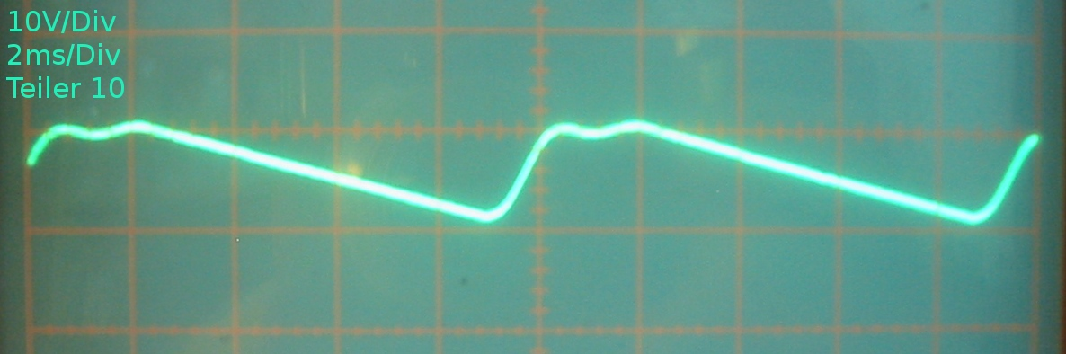 The voltage ripple on the reservoir capacitor of a compact fluorescent lamp when the input voltage has a sine wave-form.